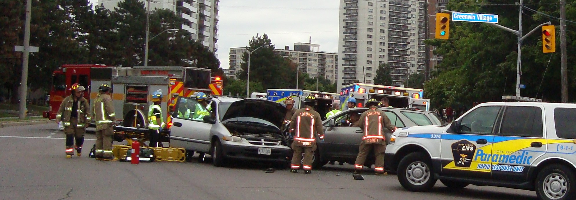 multiple vehicle car crash in toronto, ontario